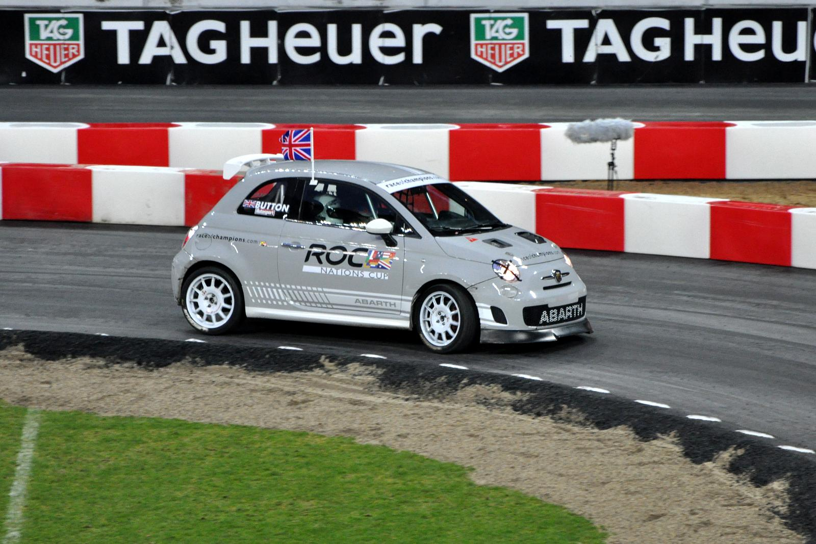 Jenson Button driving Abarth 500 at 2008 Race of Champions, Wembley Stadium